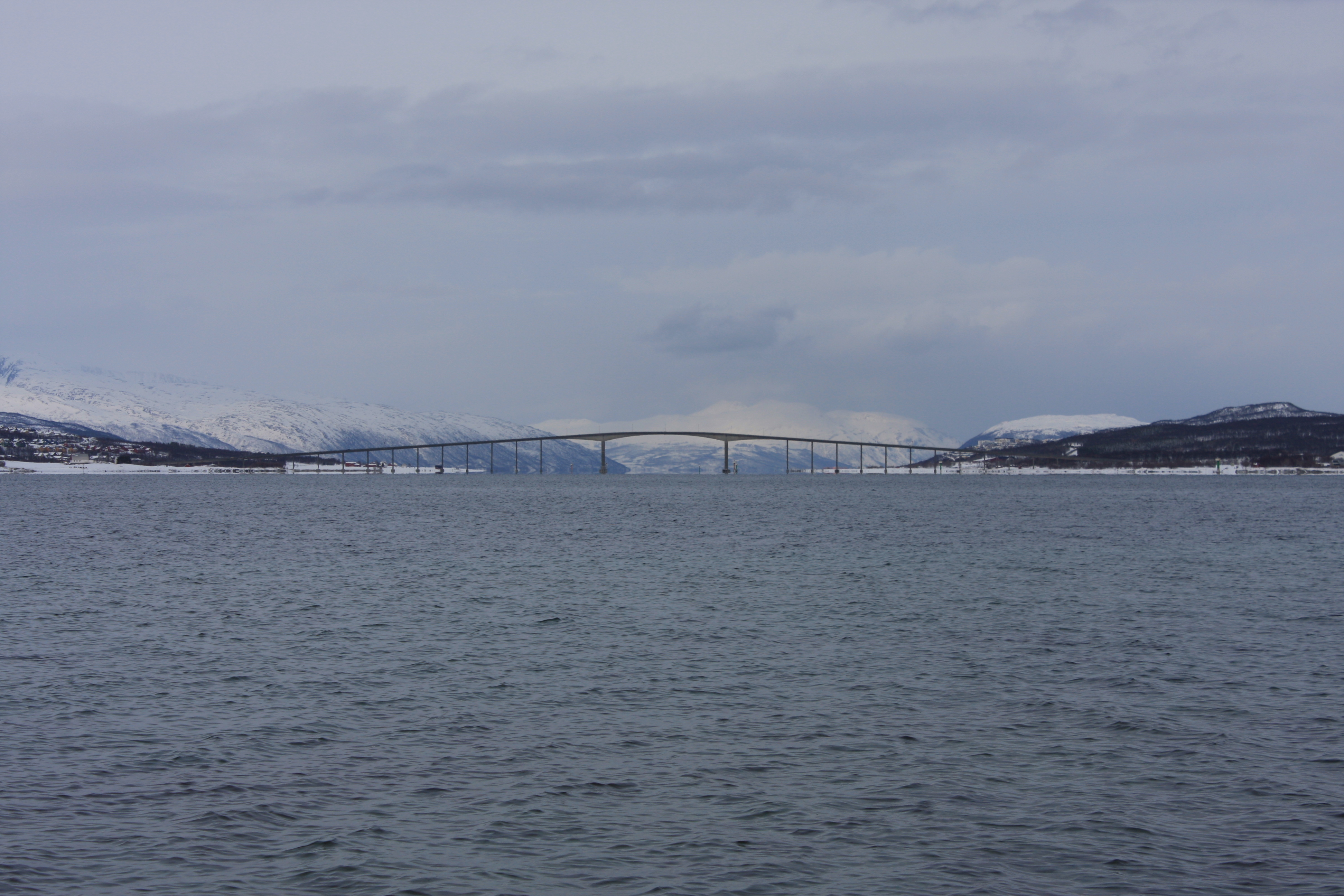 Sandnessundbrua (bridge) in the winter. The photo is shot from the northwest of Håkøya.